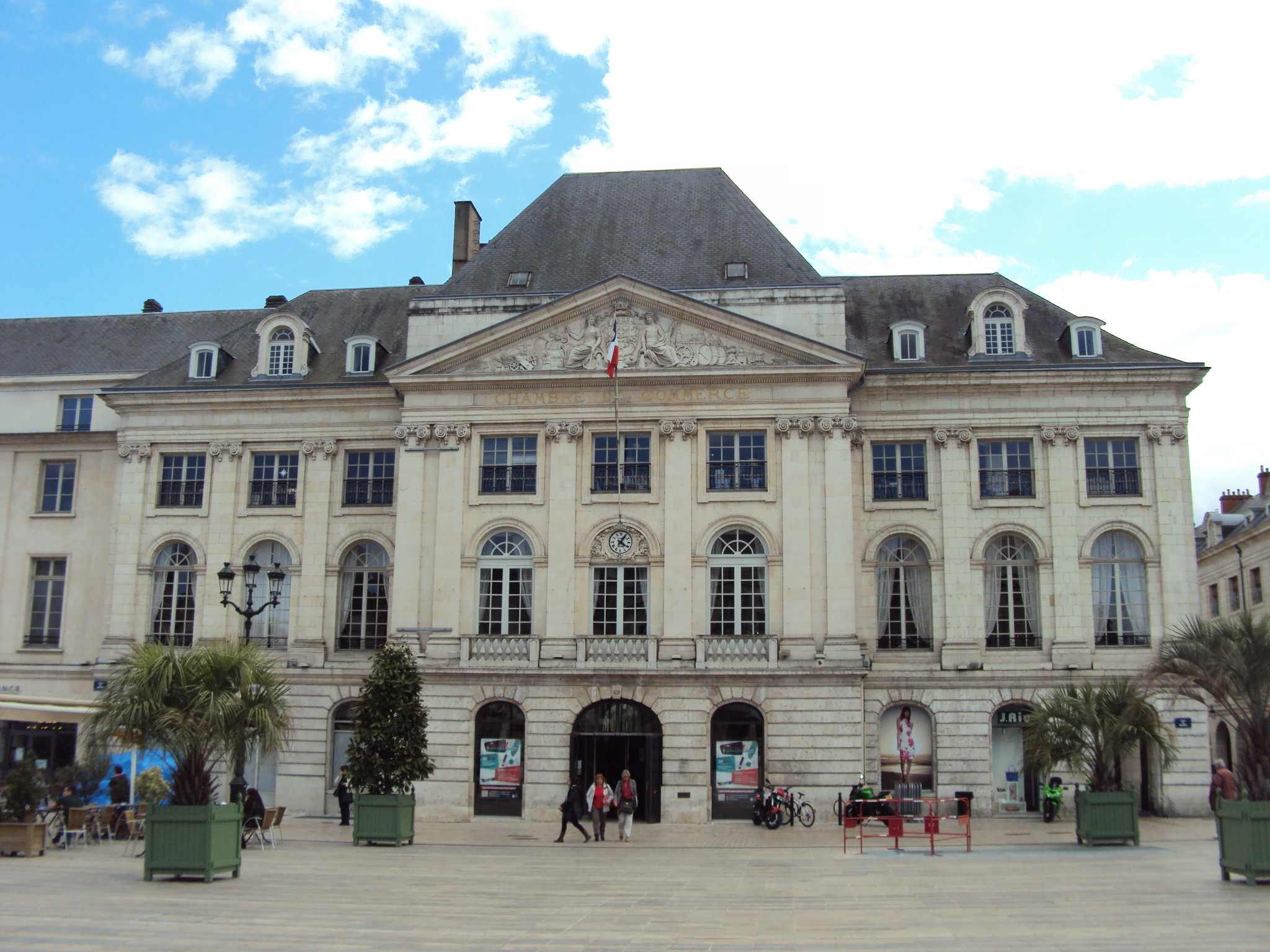 Chambre de commerce et d'industrie du Loiret in Place du Martroi, Orléans